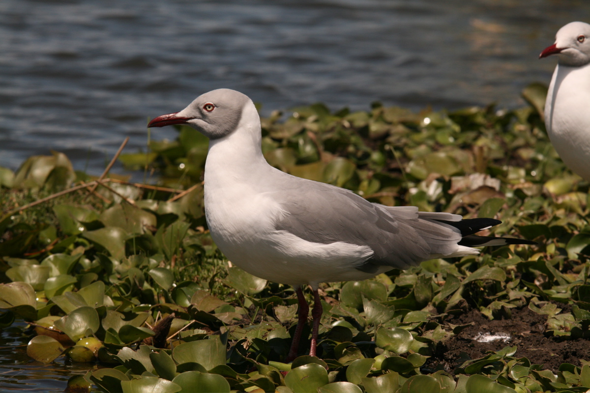 Chroicocephalus cirrocephalus, Lake Naivasha, Kenya